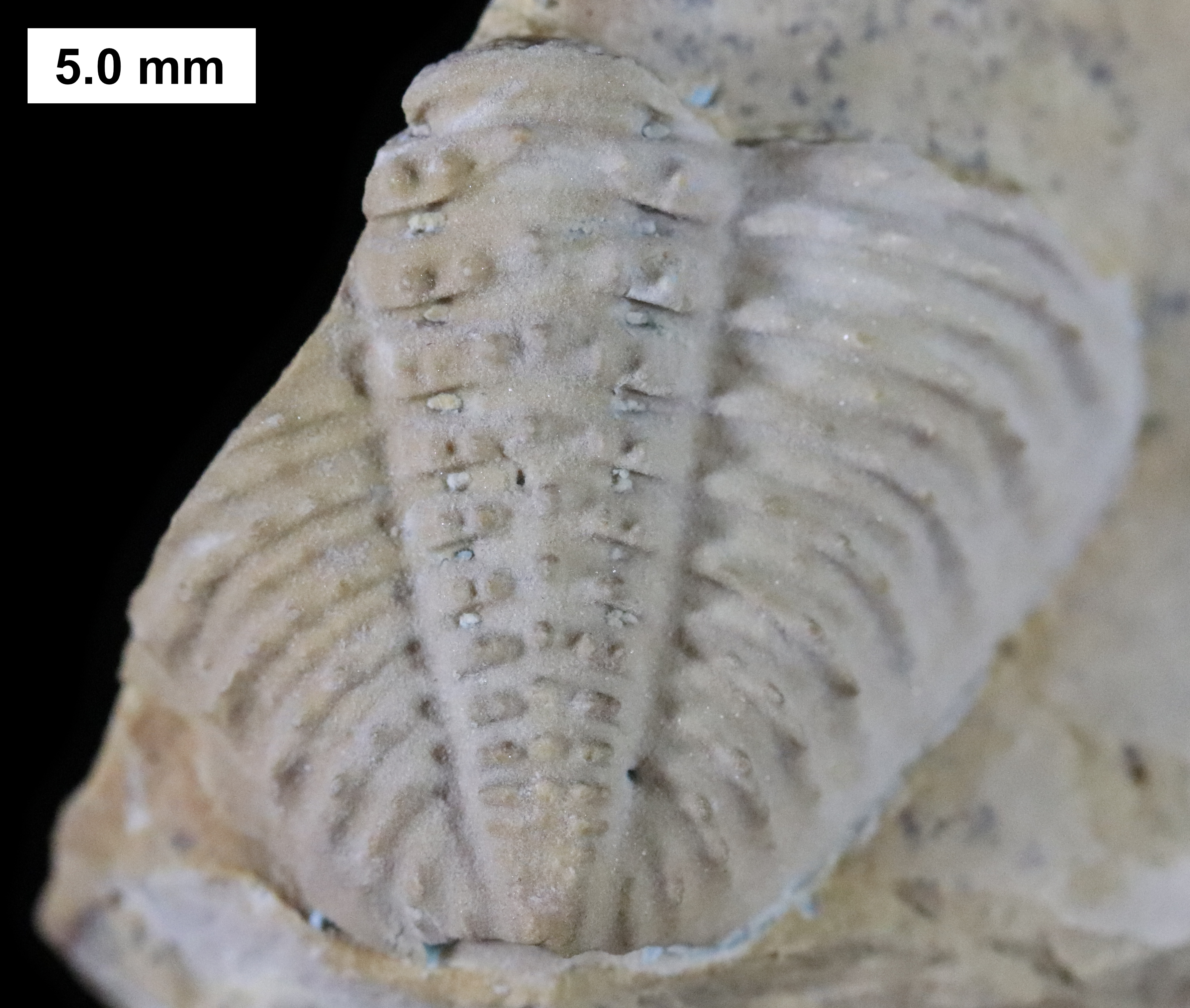 Glyptambon gassi Edgecombe, 1991; Racine Dolomite inter-reef; Middle Silurian; Lehigh Stone Company quarry, Kankakee, Kankakee County, Illinois; pygidium, internal mold; topotype; K. C. Gass collection.